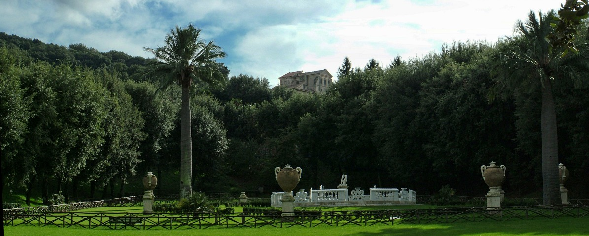 Frascati, Parco dell'Ombrellino.